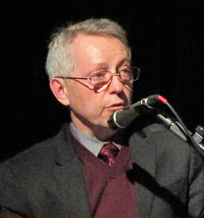 Terryl Givens speaking at the Wheatley Institute's Reason for Hope conference.